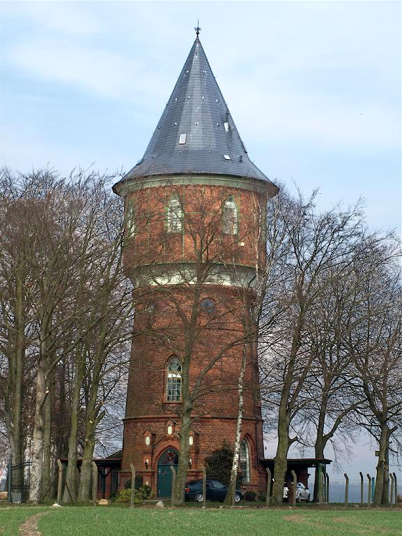 Hagenow, Mecklenburg-Vorpommern (Germany), water tower, photo 2010